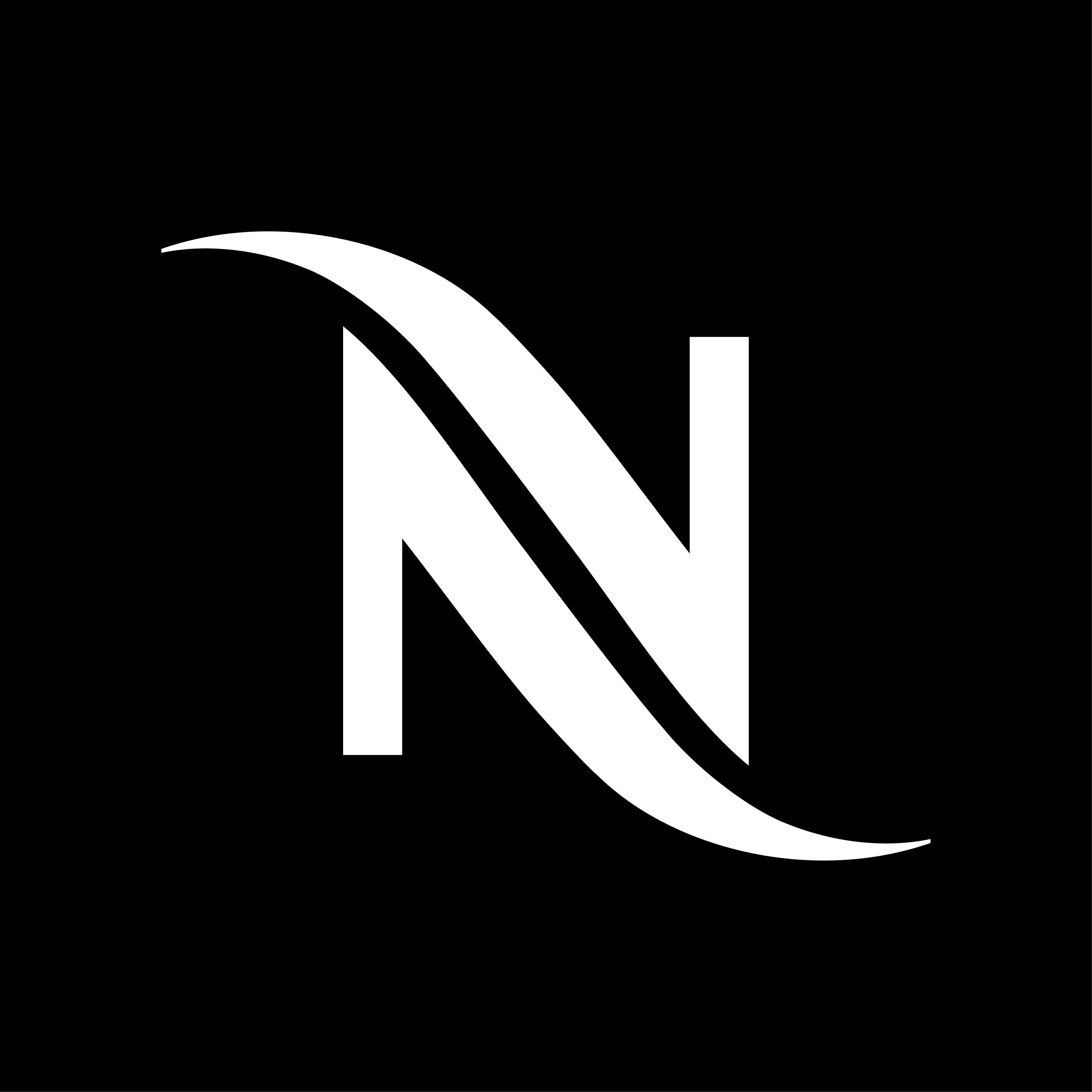 This is the official primary logo of the brand Nespresso.